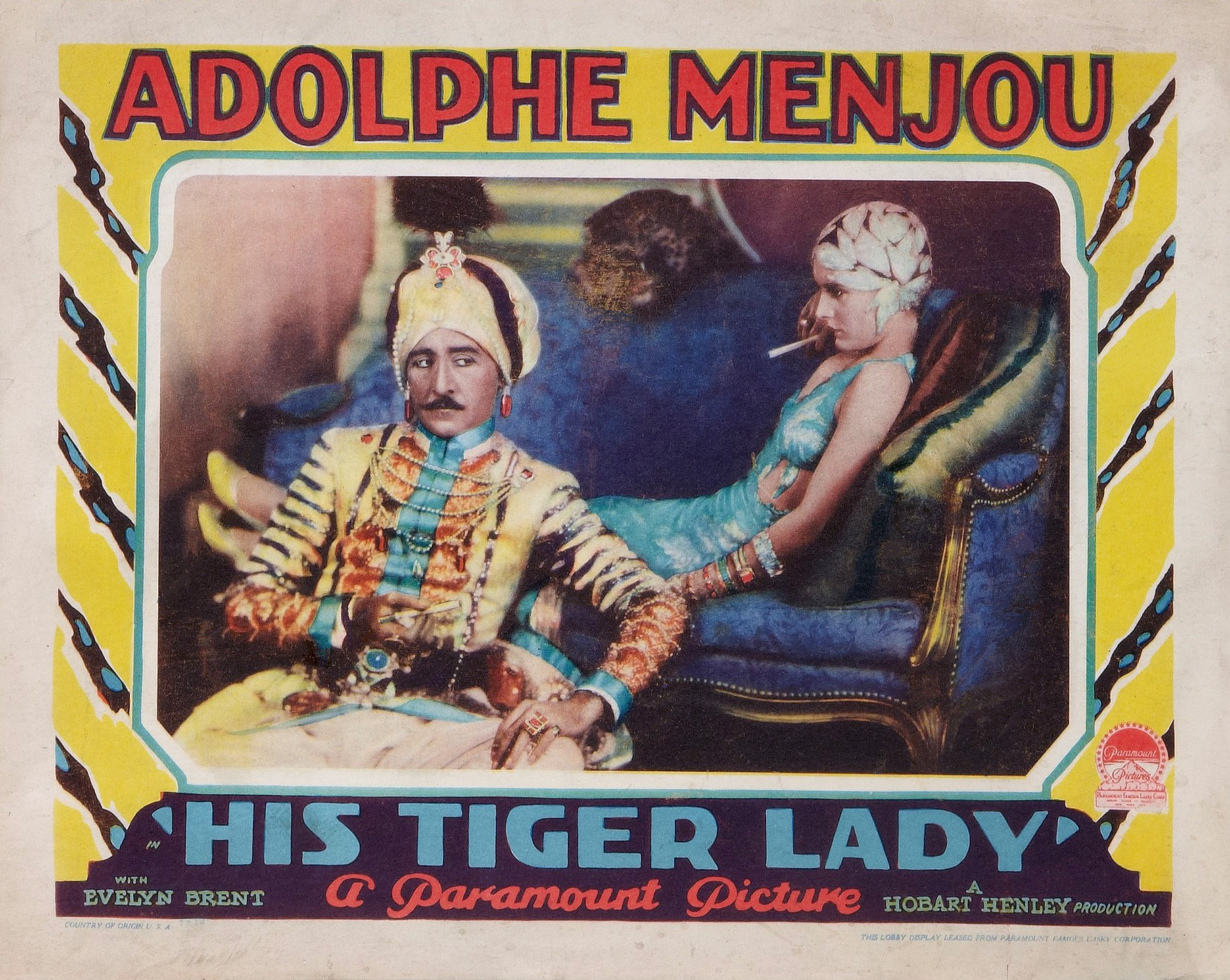 Lobby card for the 1928 film His Tiger Wife. The film is also known as His Tiger Lady. The card has no copyright marks. At lower left id Country of origin USA. At lower right is This lobby display leased from Paramount Famous Lasky Corporation.